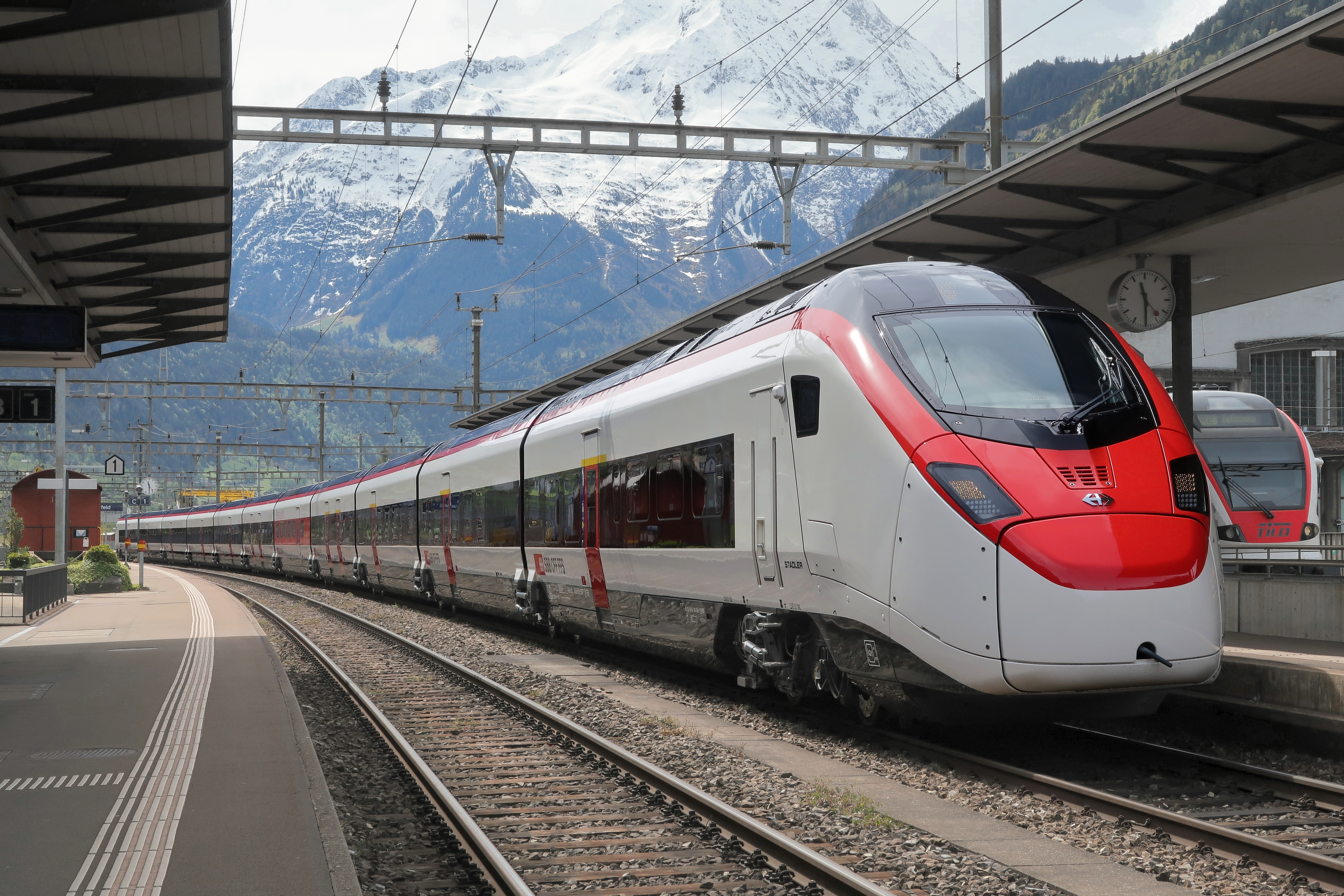 The eleven-part, 202 m long Giruno in Erstfeld after a successful maiden voyage. SBB's new Gotthard Train RABe 501 by Stadler. Switzerland, May 8, 2019. (29/31)